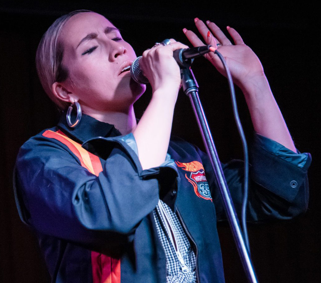 Ralph performing at Drake Underground in March 2017.